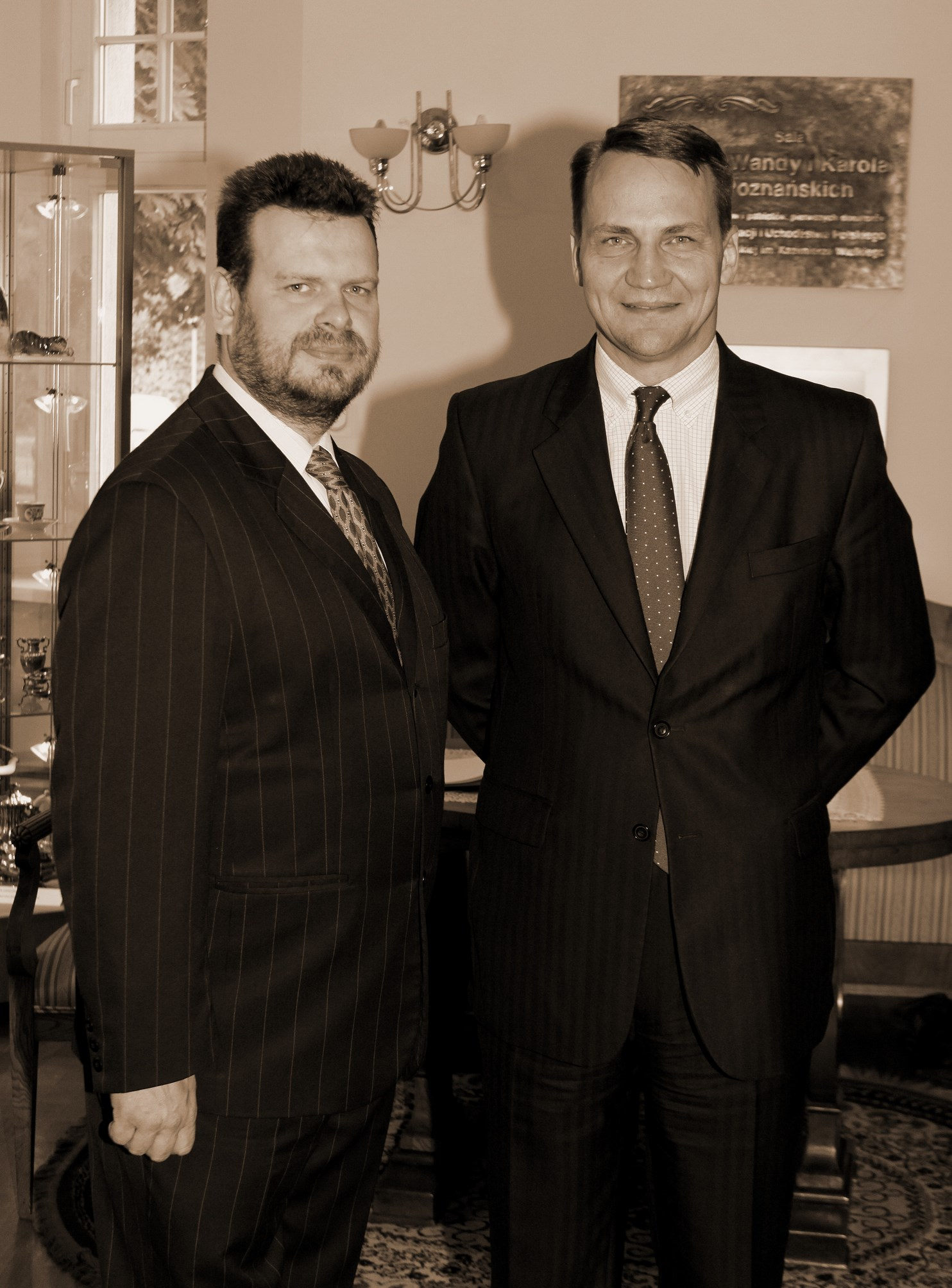 Honorary curators of Museum Diplomacy in Bydgoszcz